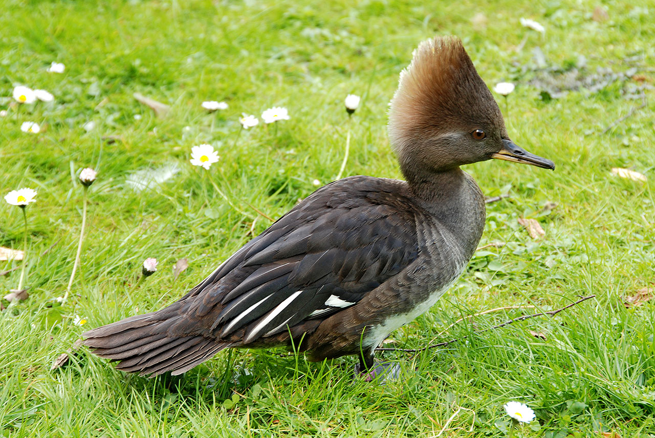 Female Hooded Merganser at Walsrode Bird Park, Germany. The head is golden buff in the breeding season.